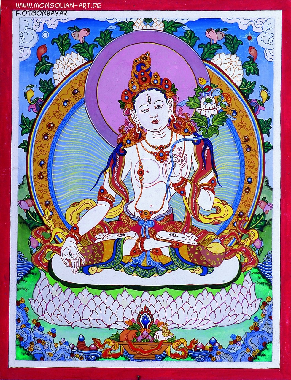 White Tara